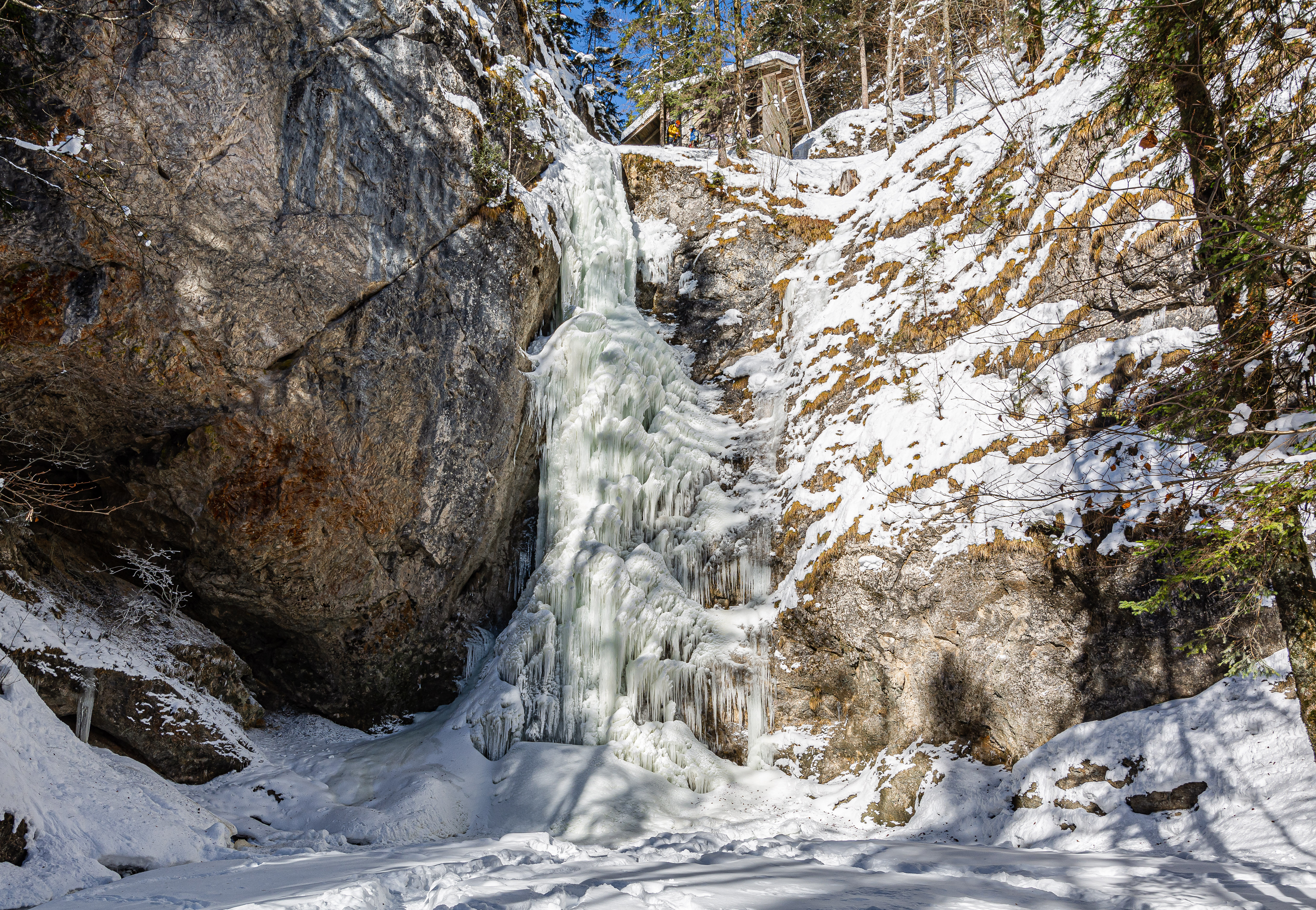 After a periode of frost the waterfall Plötz on Rettenbach in Ebenau (Salzburg state) has converted into an impressive cascade of ice. This media shows the natural monument in Salzburg with the ID NDM00042.